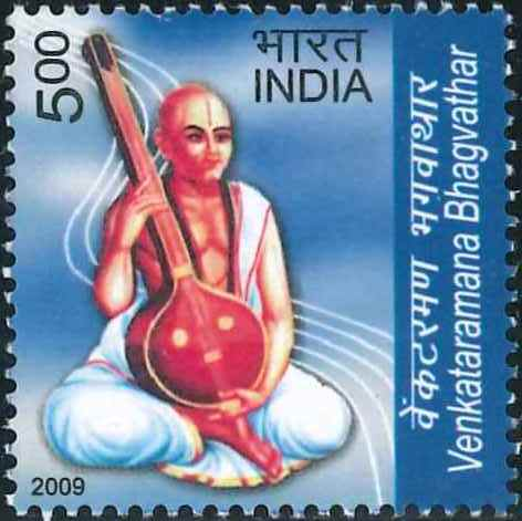 Venkataramana Bhagavathar was the disciple of Saint Thiyagarajar of Tanjore District of Tamilnadu